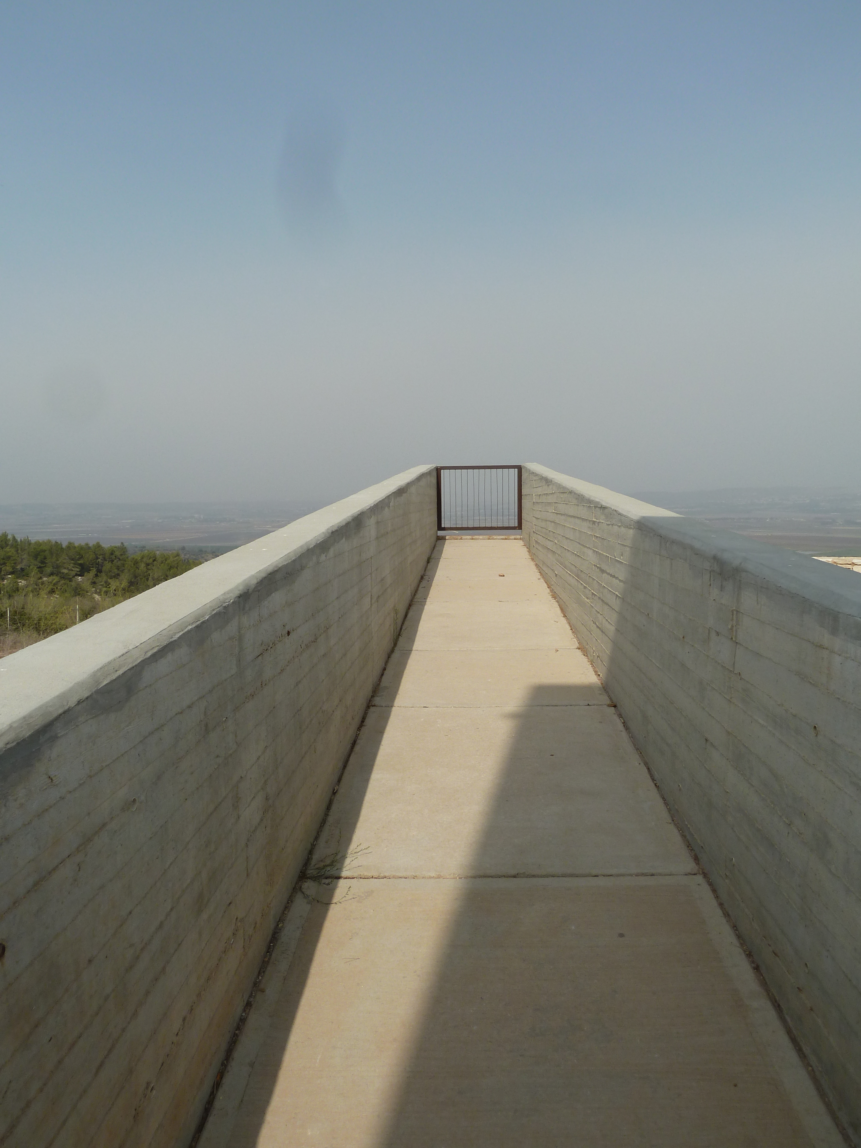 The Kibbutzim Memorial - Memorial to Fallen Kibbutz Members - Mishmer HaEmek Forest, Ramot Menashe (Menashe Hills)